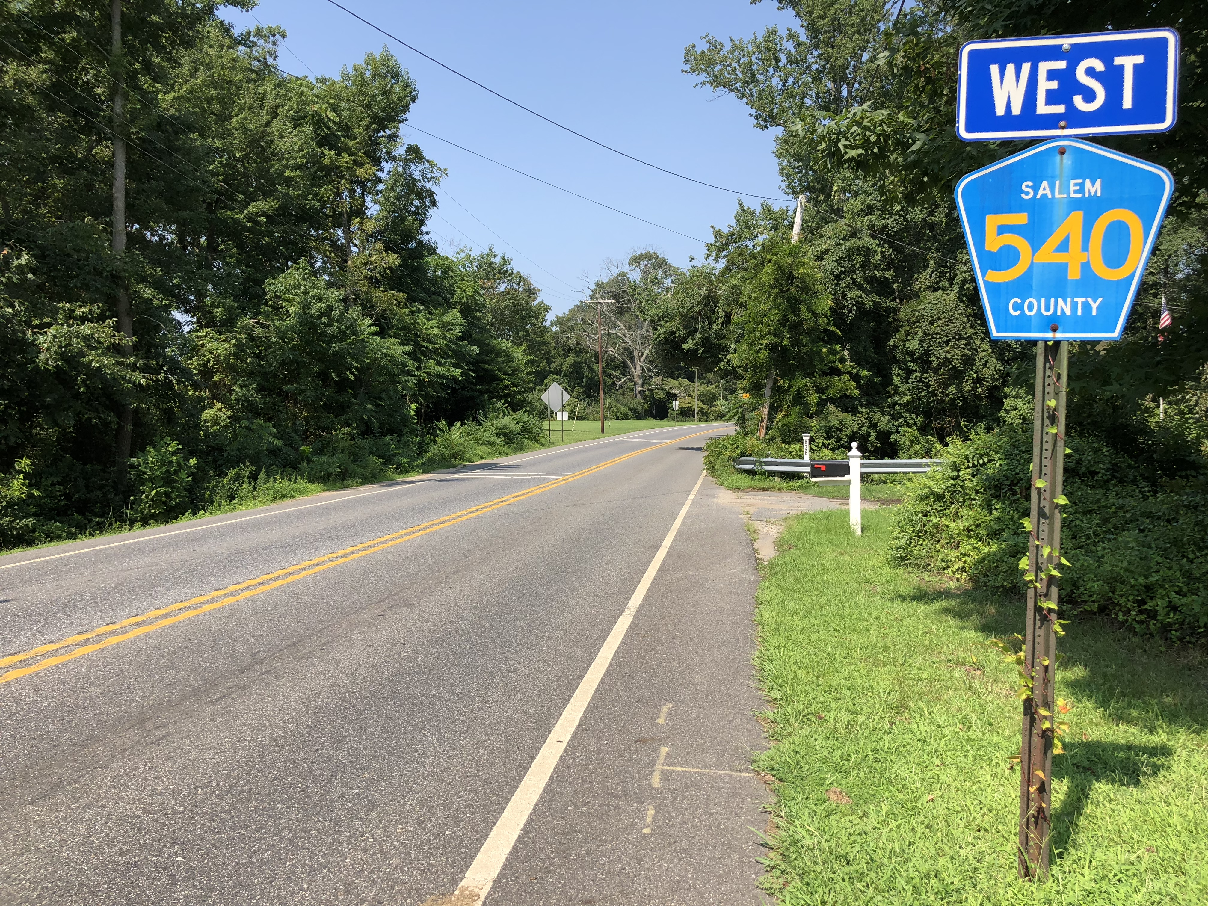 View west along Salem County Route 540 (Almond Road) just west of Salem County Route 645 (Parvins Mill Road) in Pittsgrove Township, Salem County, New Jersey